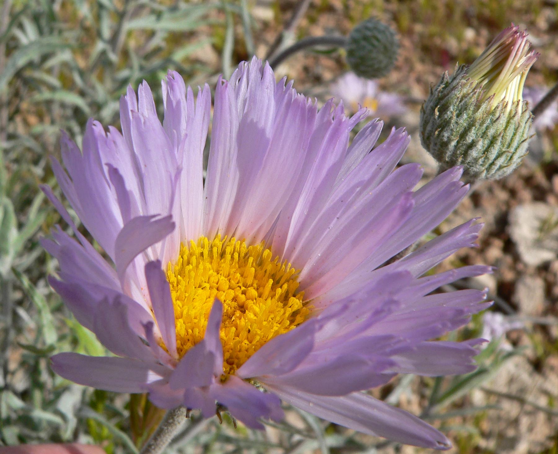 Photo of Xylorhiza tortifolia (Mojave-aster) in Red Rock Canyon, Nevada